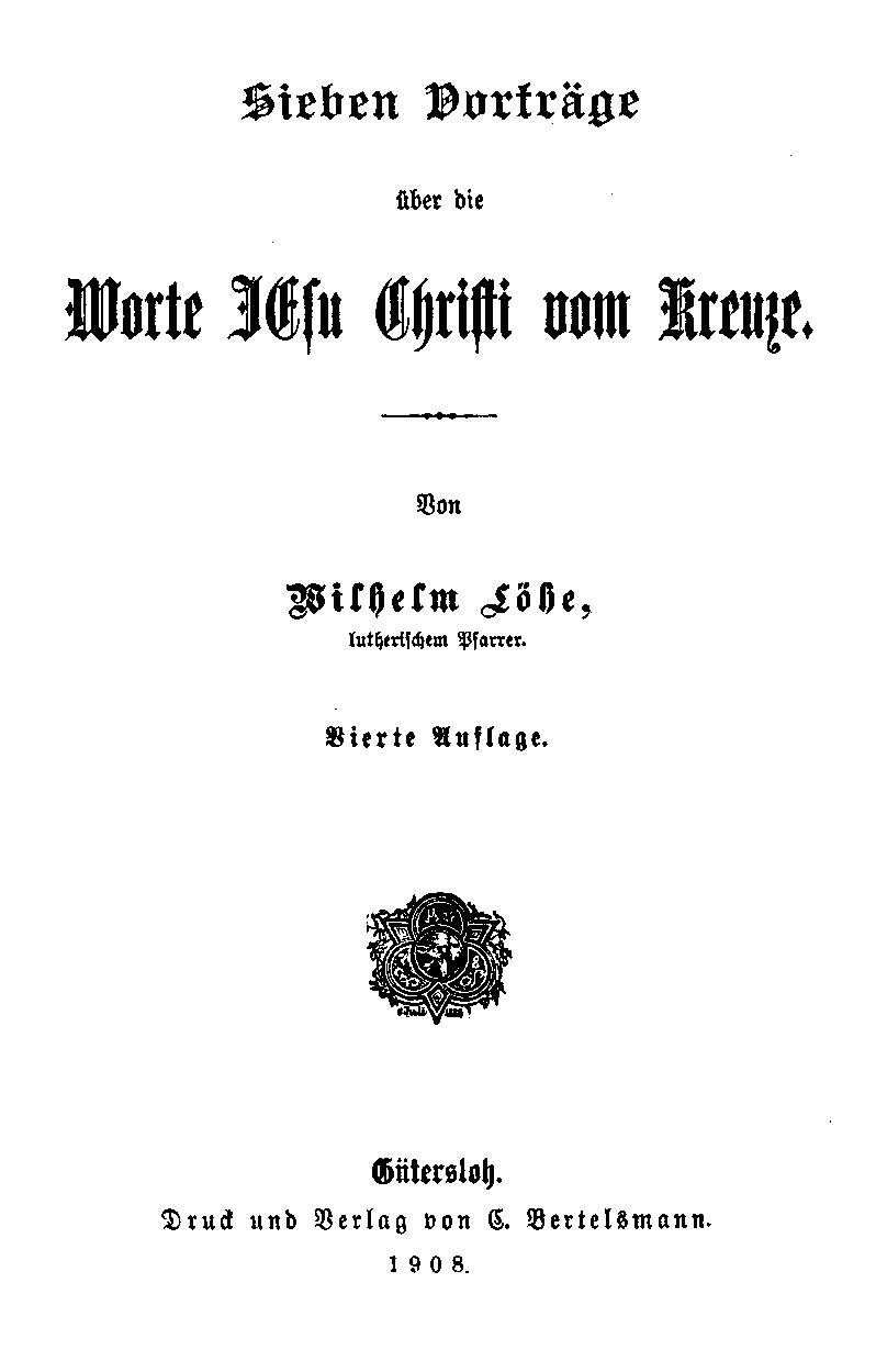 Cover of a book by Wilhelm Löhe